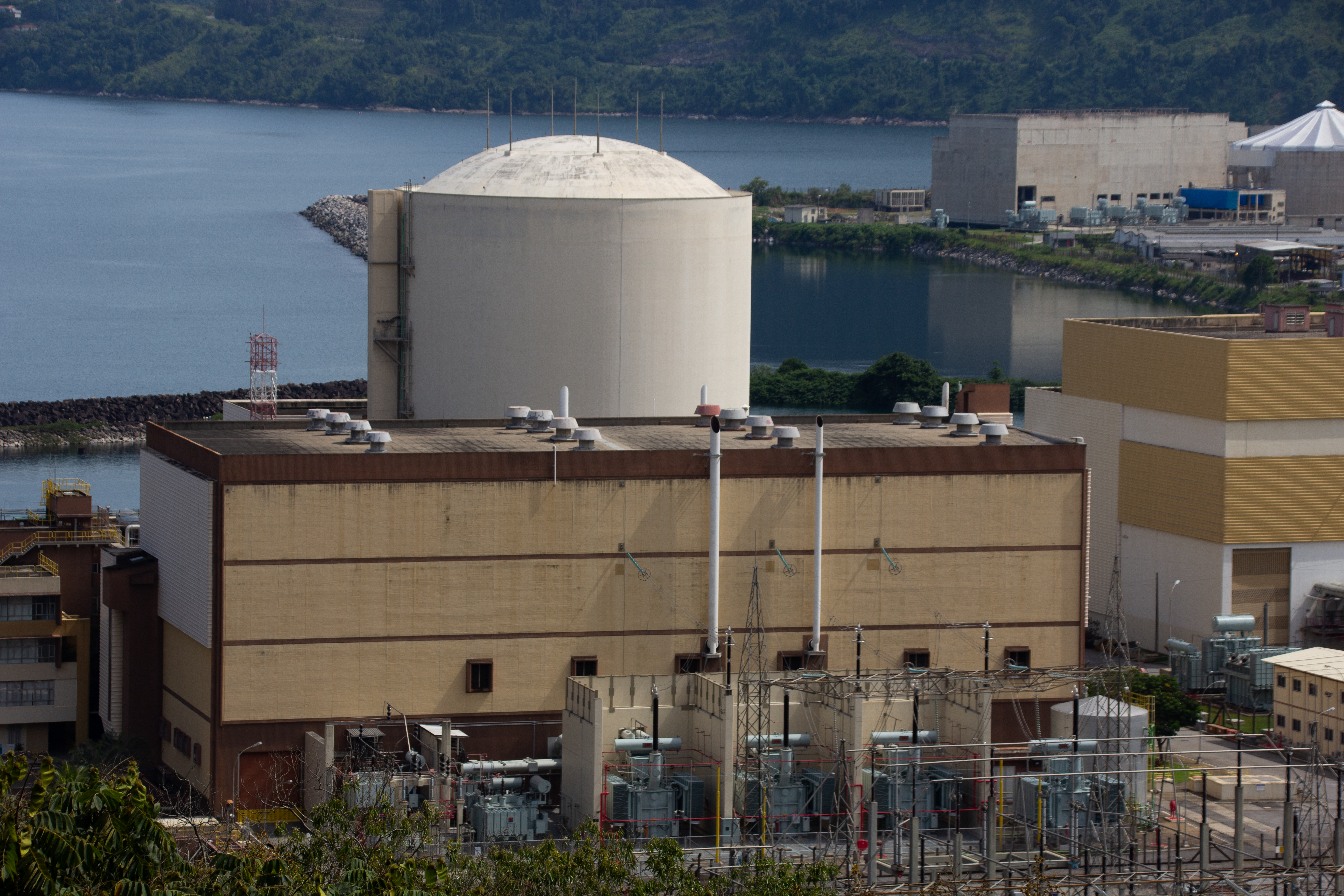 Around Paraty and area, Brazil